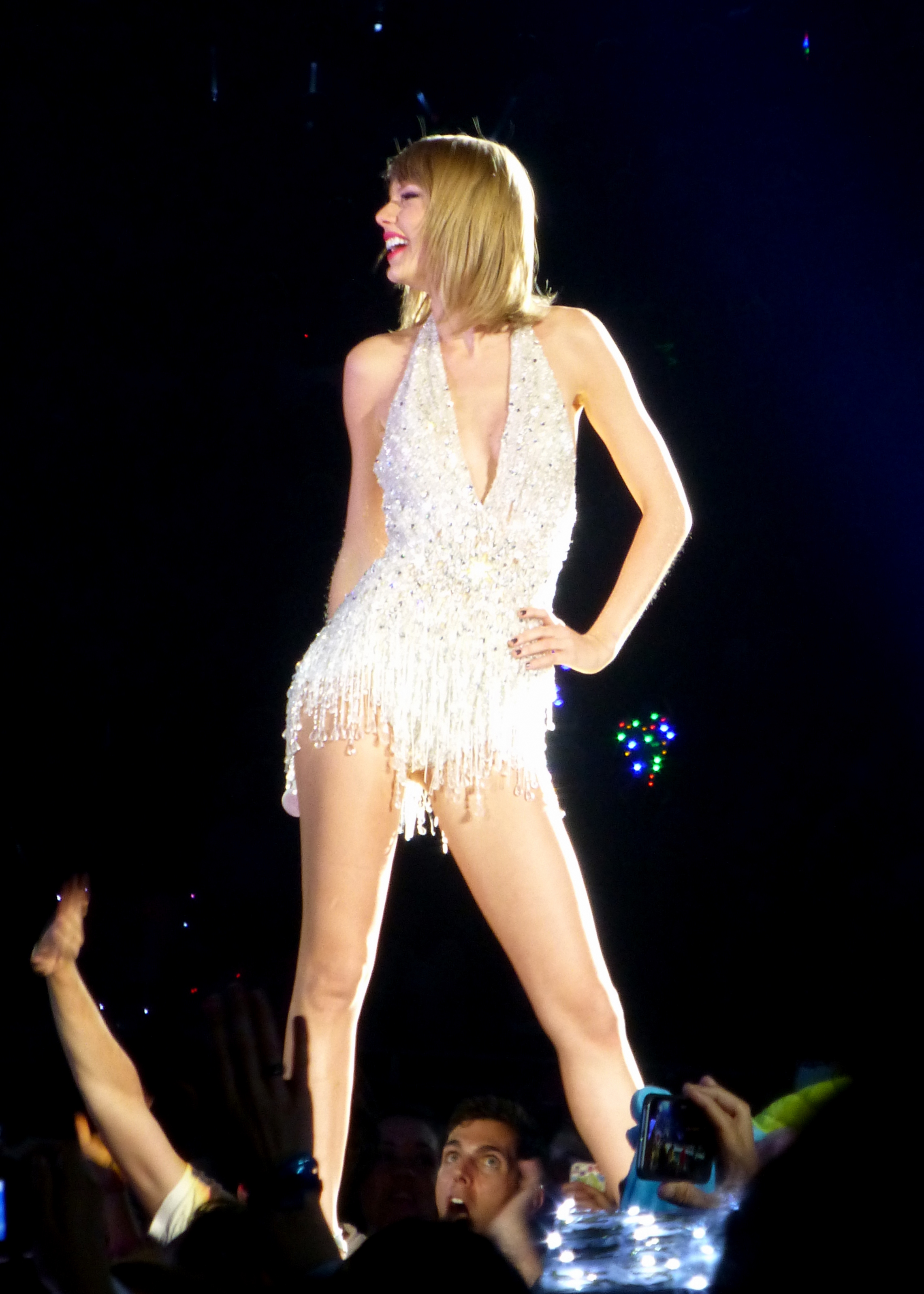 Taylor Swift 1989 Tour at Ford Field in Detroit, 5/30/15